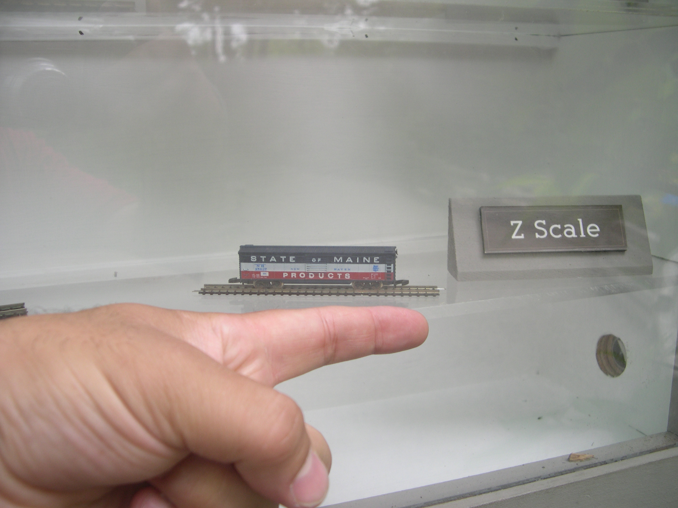 A Z Scale train model compared to a finger. Shown at the Chicago Botanic Garden.